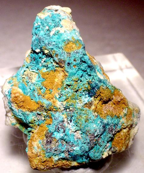 Christelite Locality: San Francisco Mine (Beatrix Mine), Caracoles, Sierra Gorda District, Tocopilla Province, Antofagasta Region, Chile (Locality at ) Lustrous, bright-blue bladed christelite crystals to 3 mm richly cover the matrix from the worlds ONLY locality for this ultra-rare zinc, copper sulfate, the San Francisco Mine in Chile. This is a new species described in 1996. The find was very limited! 3.2 x 2.8 x 2.0 cm